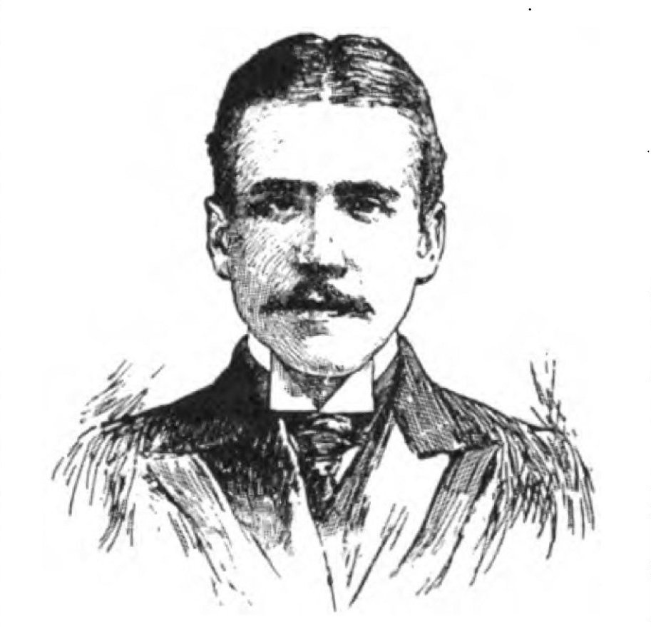 Stephen Bonsal (March 29, 1865 – June 8, 1951) was an American historian, essayist, diplomat and translator.